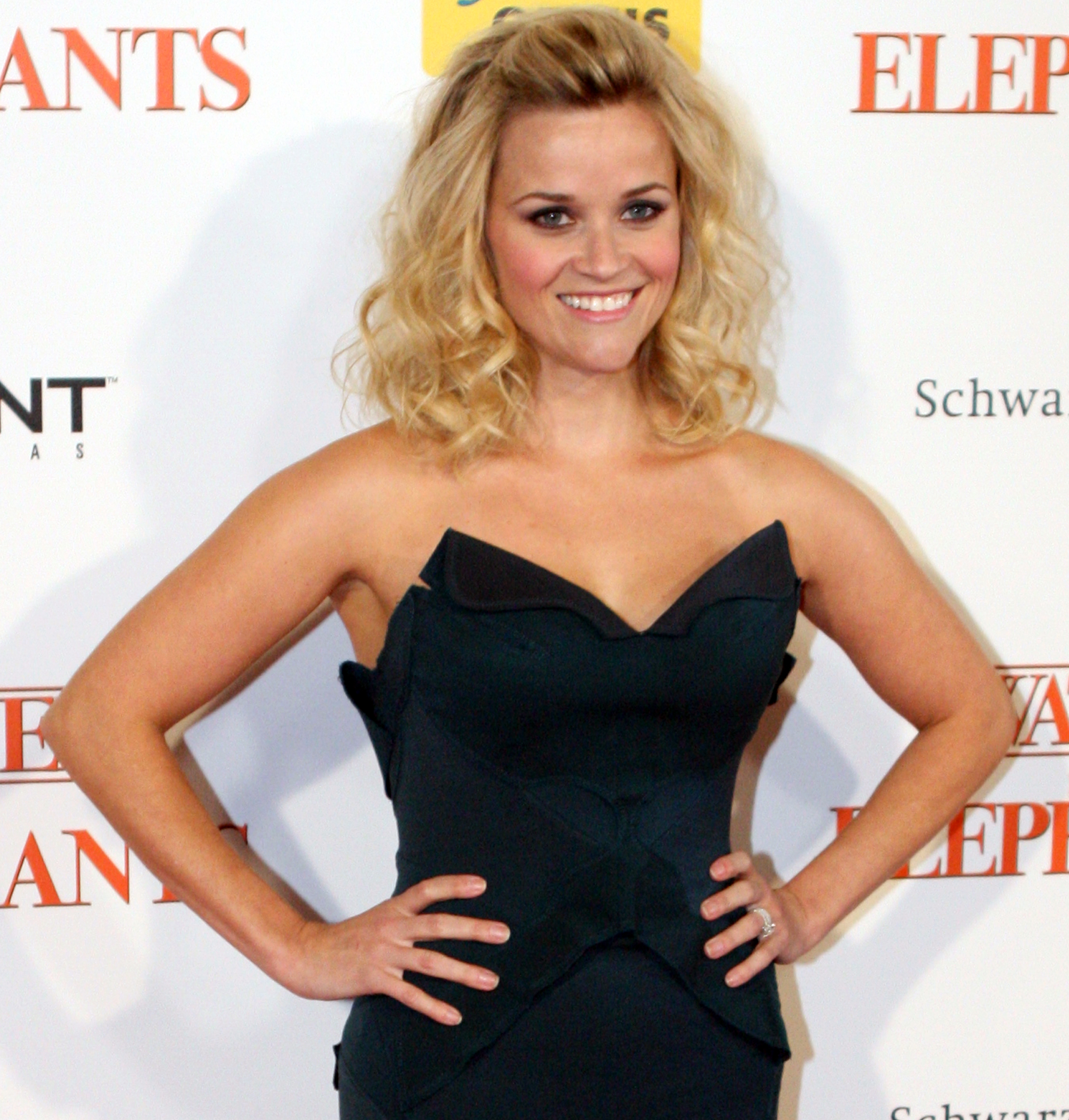 Reese Witherspoon at the Water for Elephants Premiere 2011.